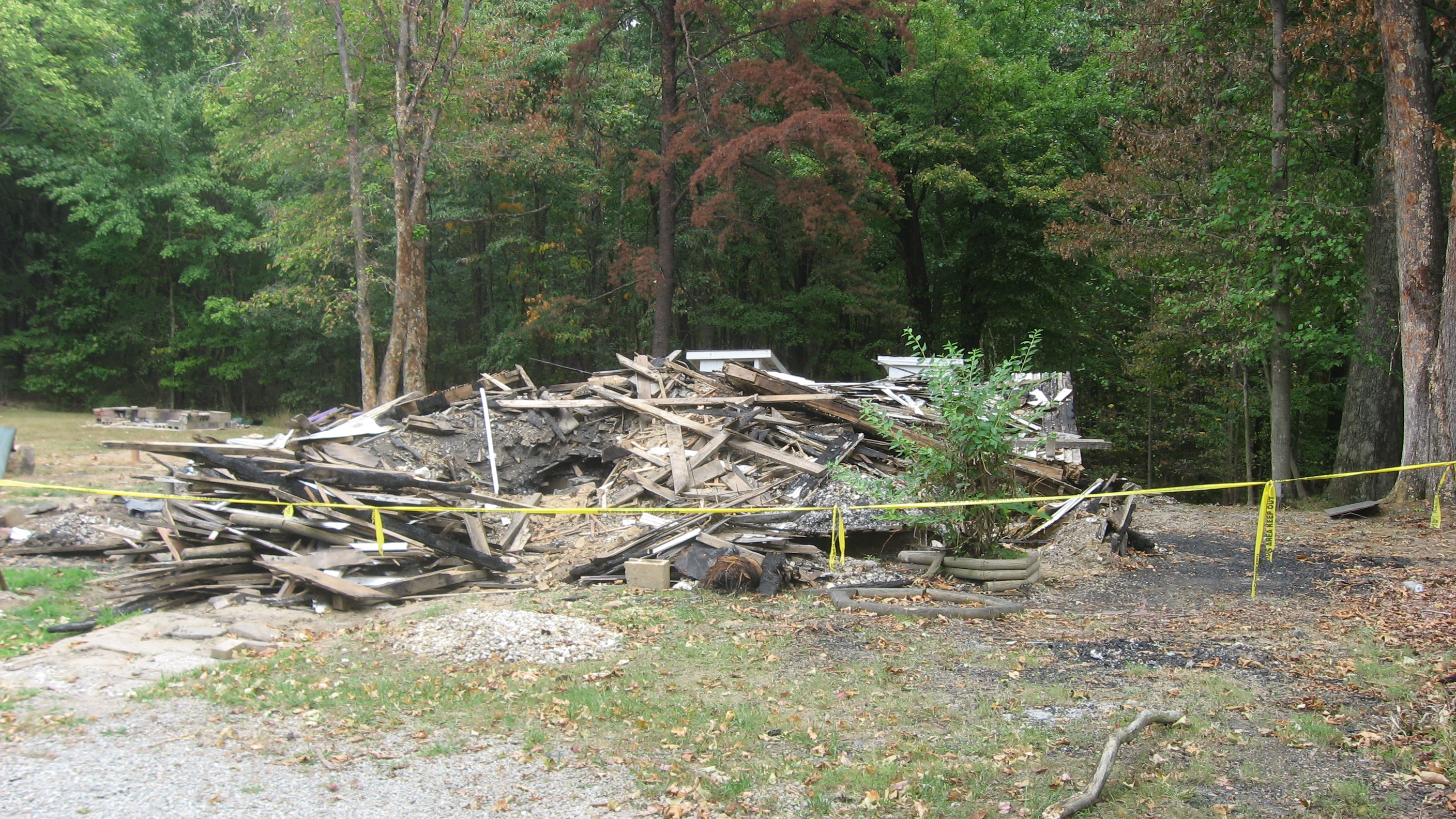 Southwestern side of a pile of rubble located along Grandview Road southeast of Nashville in Van Buren Township, Brown County, Indiana, United States. Until an arson on 14 July 2010, this pile of rubble was known as the Grandview Apostolic Church; built in 1892, the church was listed on the National Register of Historic Places in 1991, along with its outhouses and cemetery; the church was removed from the Register three months later. It was a part of the Apostolic Church.